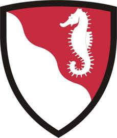 36th Engineer Brigade SSI from [1]